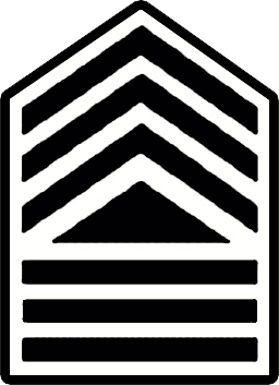 The Philippine Navy Chief Petty Officer Rank Insignia.